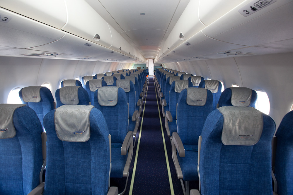 SJI at Farnborough 2010